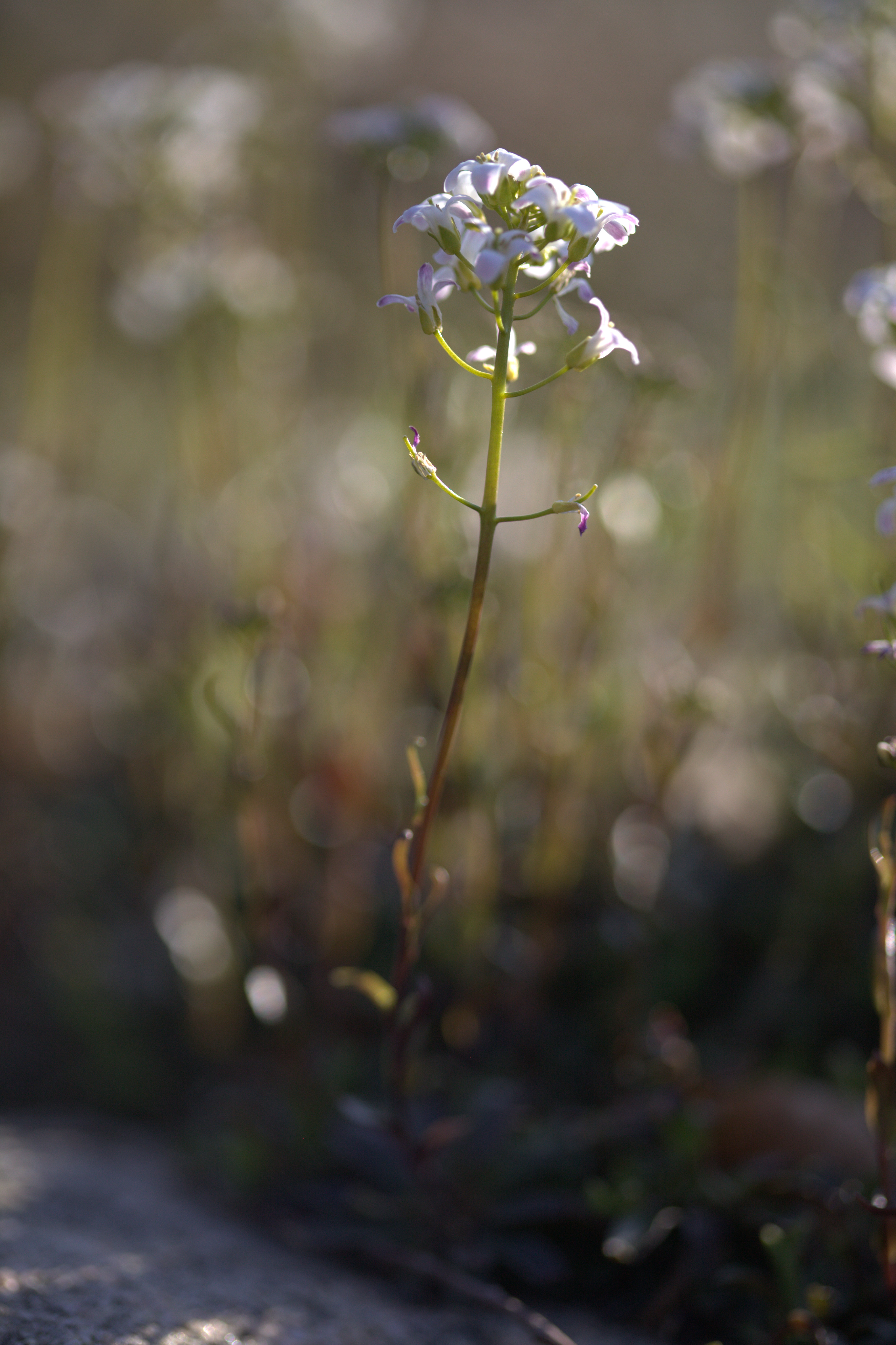 Photo taken at Gothenburg botanical garden. Specimen id: 1990-2330 p G Plant collected in 1990 from a garden in Säve.